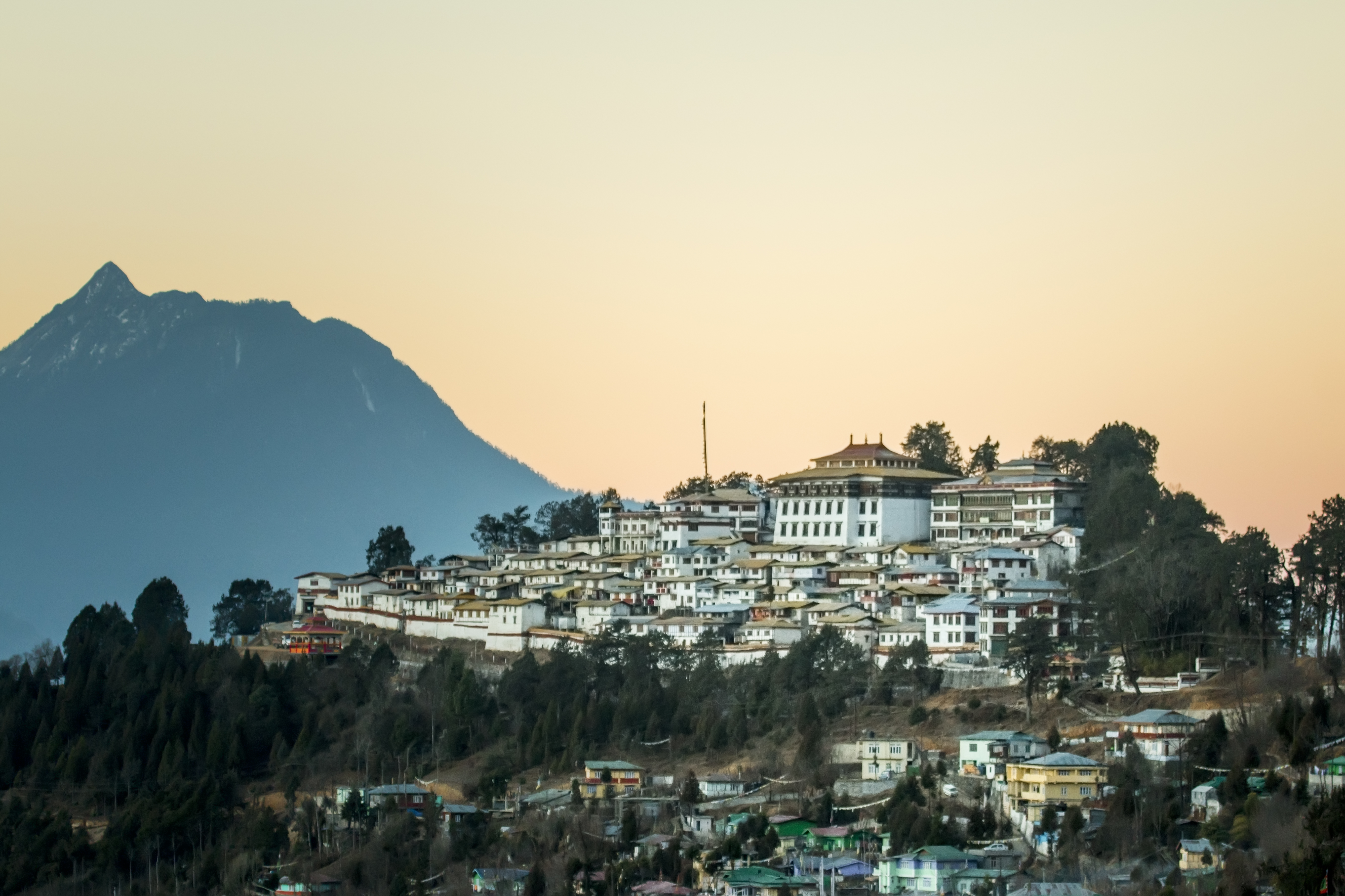 Tawang Monastery in Arunachal Pradesh is the largest monastery in India. It was founded near the small town of the same name in the northwestern part of Arunachal Pradesh, India by Merak Lama Lodre Gyatso in 1680-1681 in accordance with the wishes of the 5th Dalai Lama. The monastery belongs to the Gelug school and has a religious association with Drepung Monastery in Lhasa, which continued during the period of British rule. It is very close to the Tibet Autonomous Region border, in the valley of the Tawang-chu which flows down from Tibet